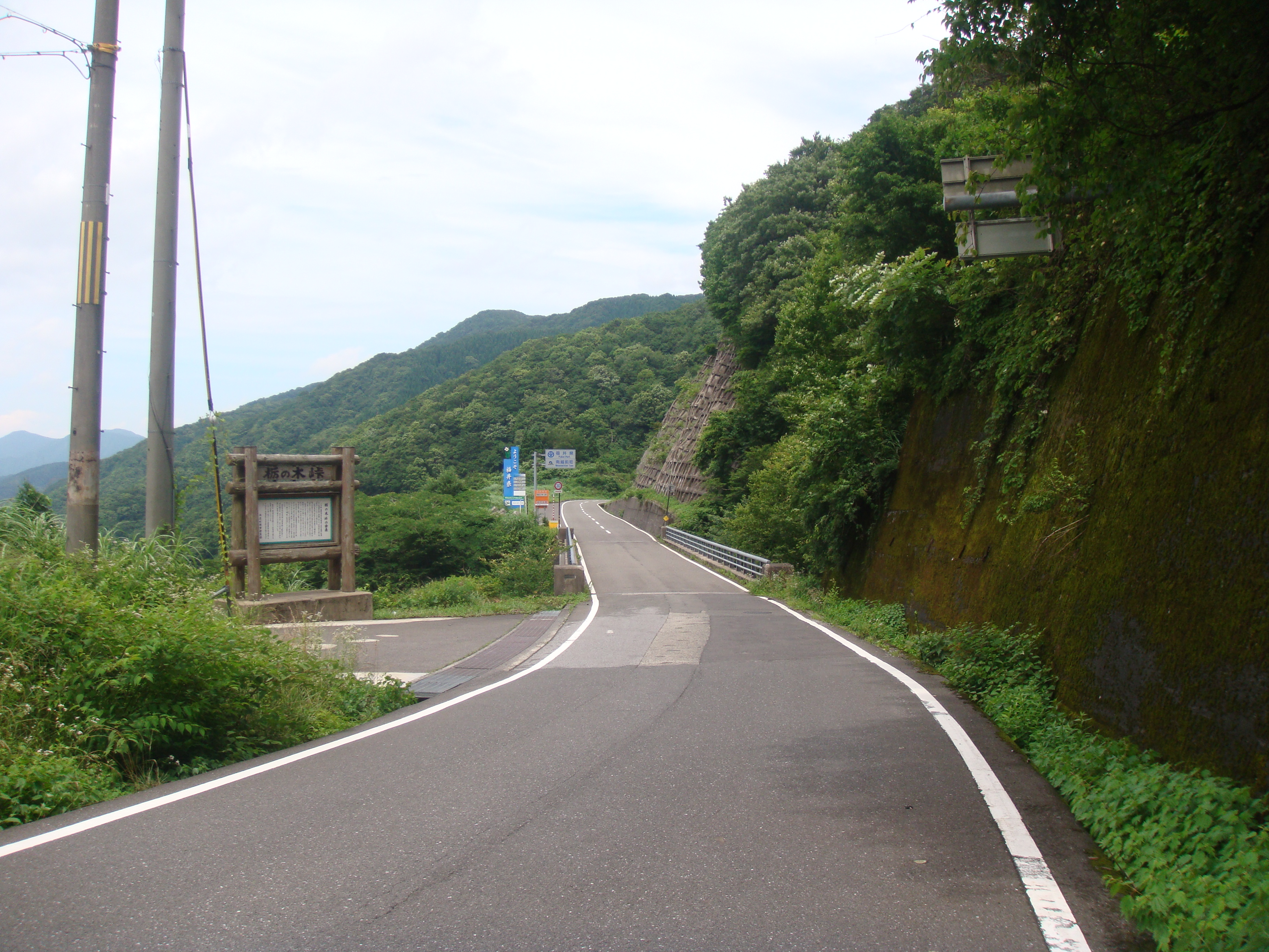 Tochinoki Pass Place - Yogocho-Nakanokawachi,Nagahama City,Shiga Prefecture,Japan Date - July 16, 2010 Format - JPEG, 3648x2736pixel, 24bit colors Photographer - NALA Wiki (talk)